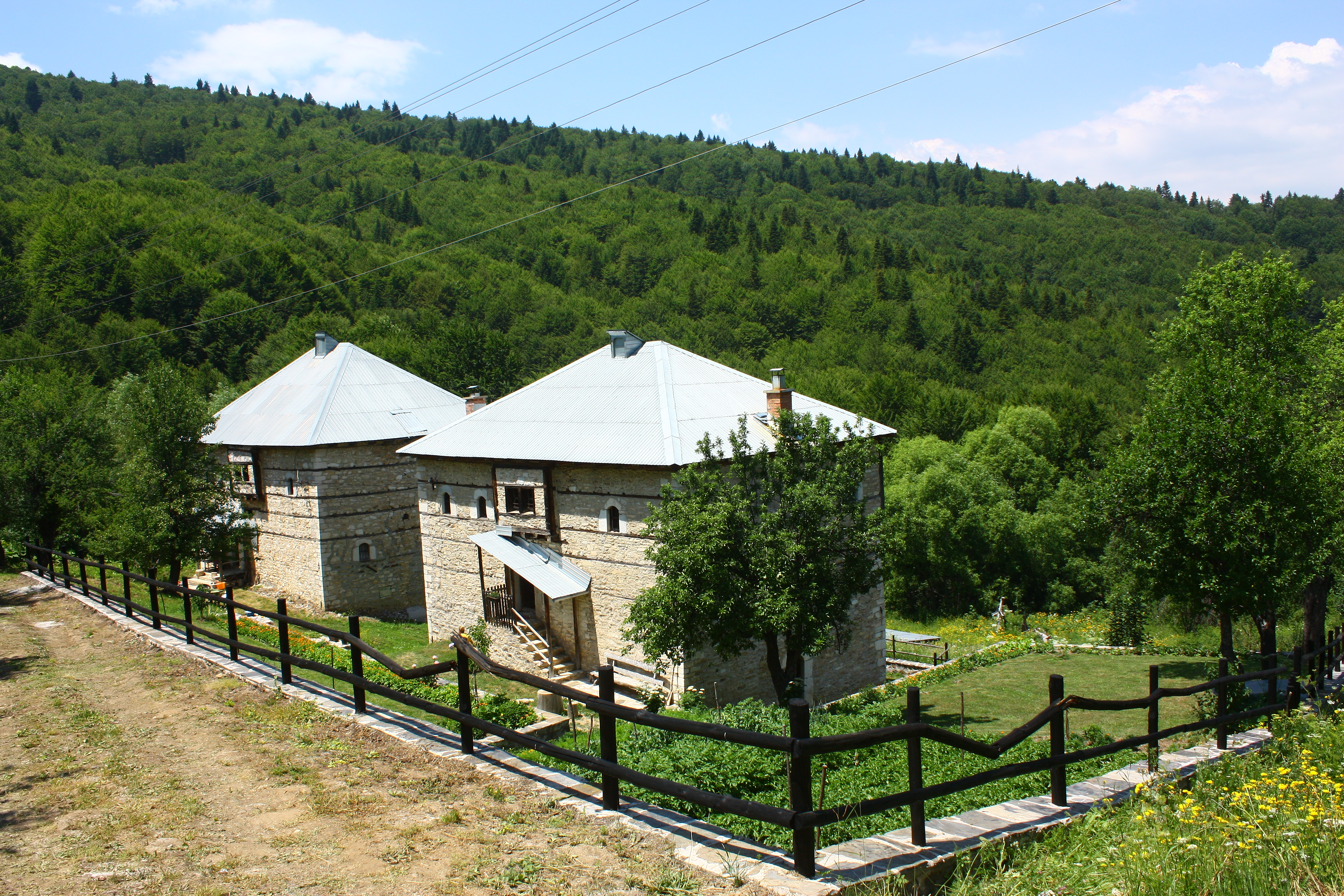 Kičinica, Macedonia